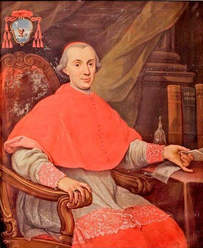 Leonardo Antonelli (1730-1811), cardinal of the Roman Catholic Church